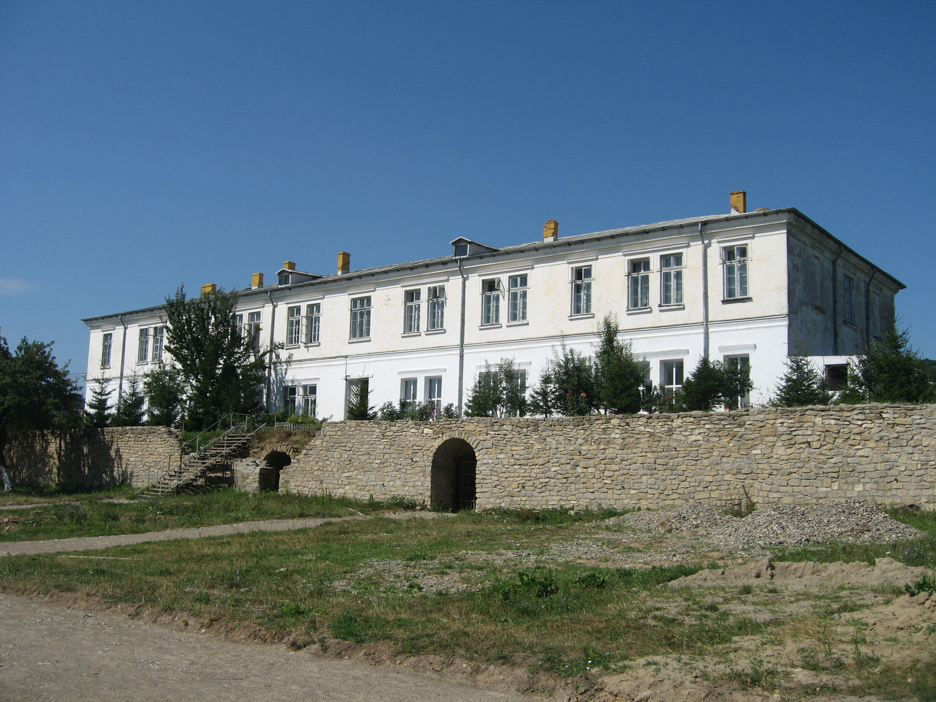 Mănăstirea Dobrovăţ